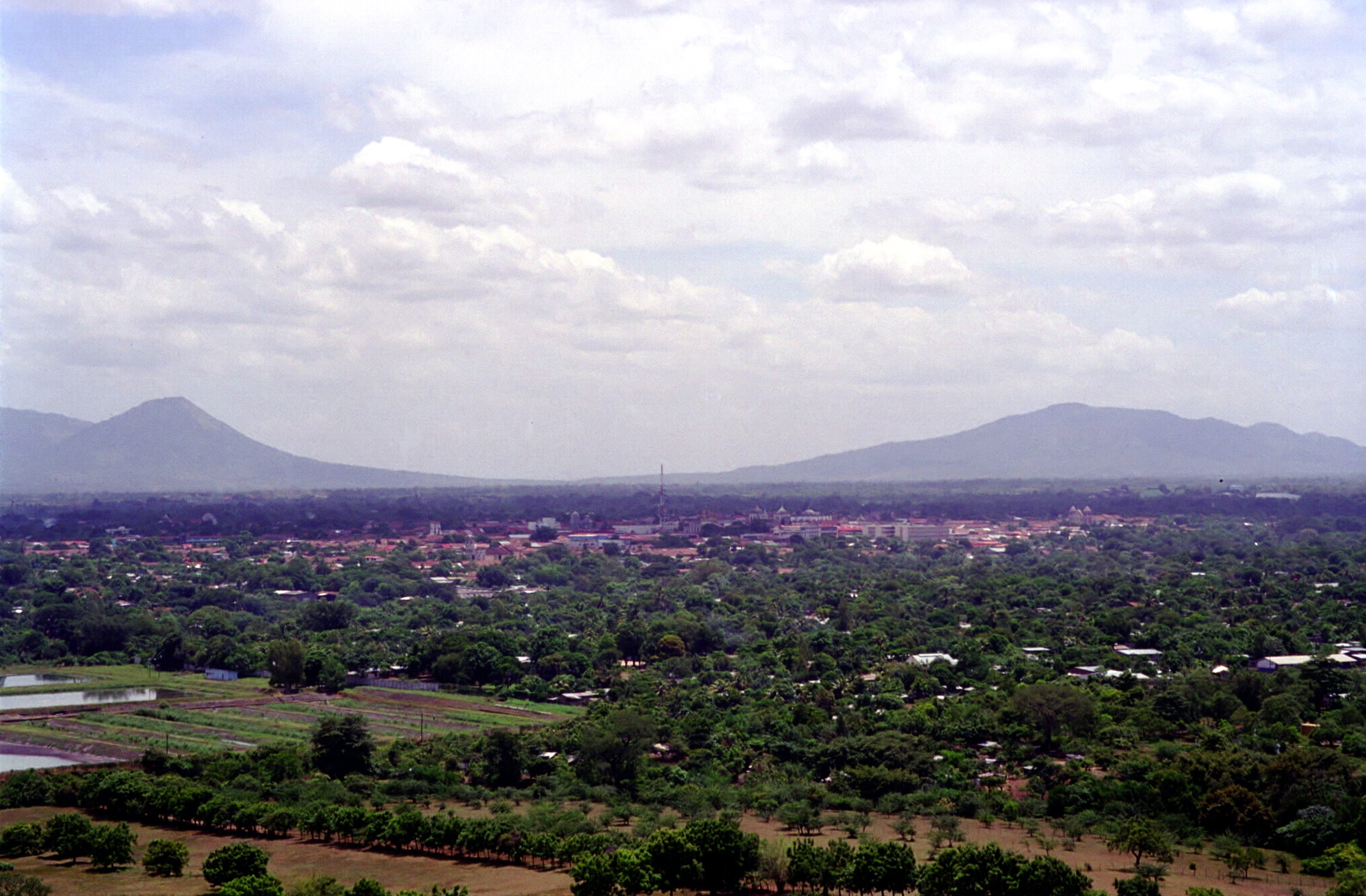 View of the city of León, Nicaragua, taken from "el Fortín Sandinista."